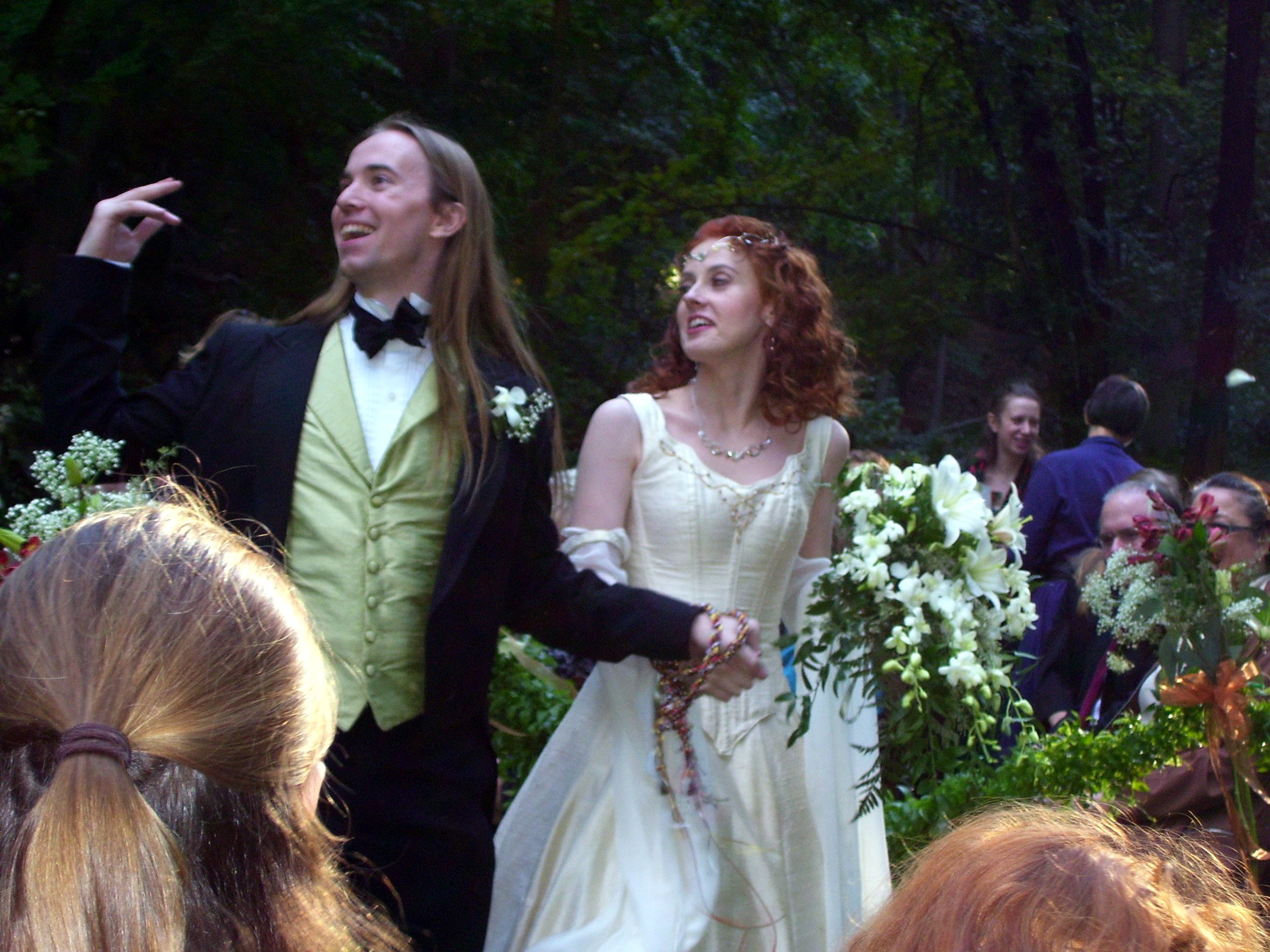 Tara and Liam, a newly wedded couple, carry wedding cords as they celebrate their wedding.